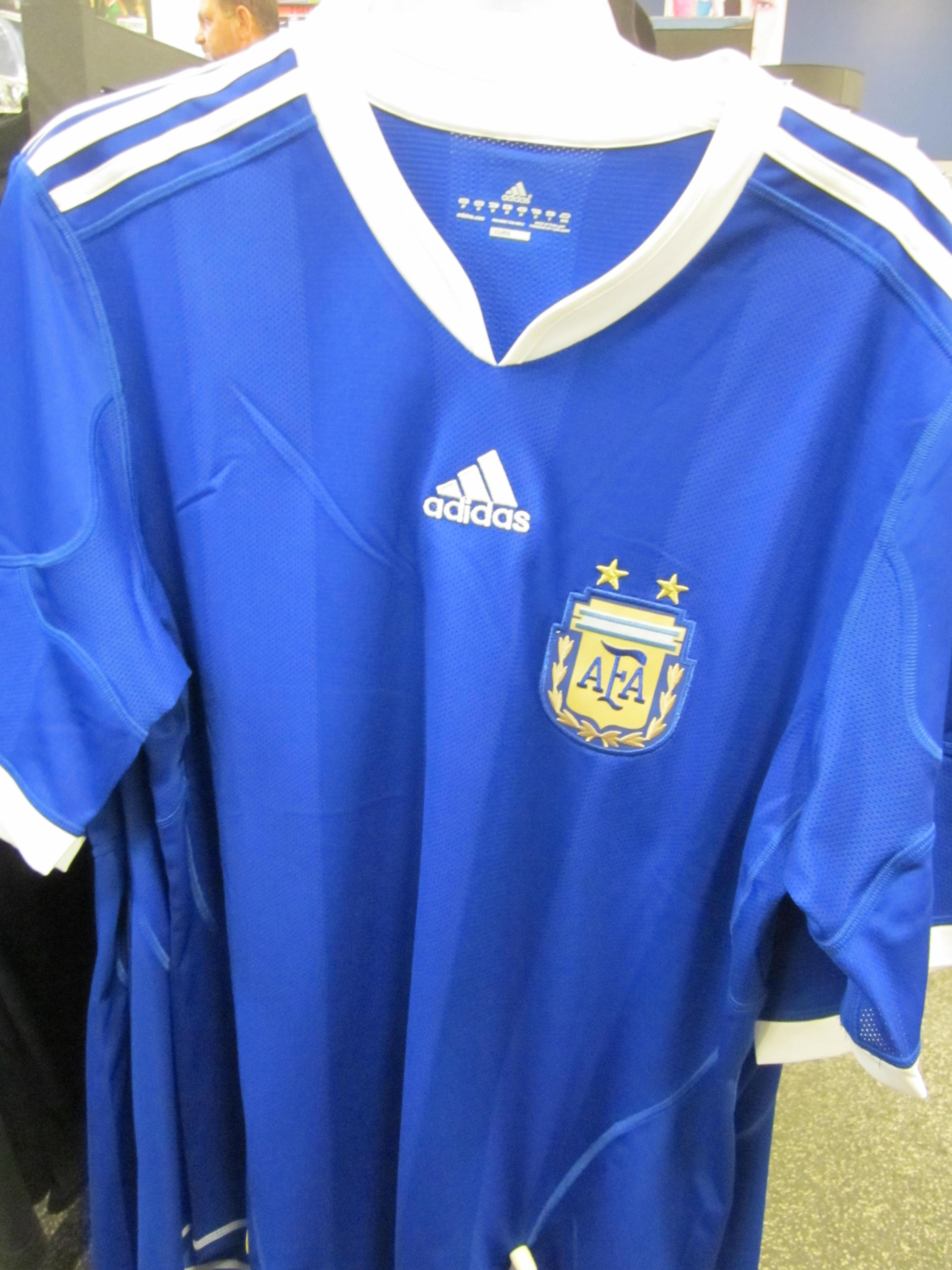 An Adidas Argentina national football team away jersey.